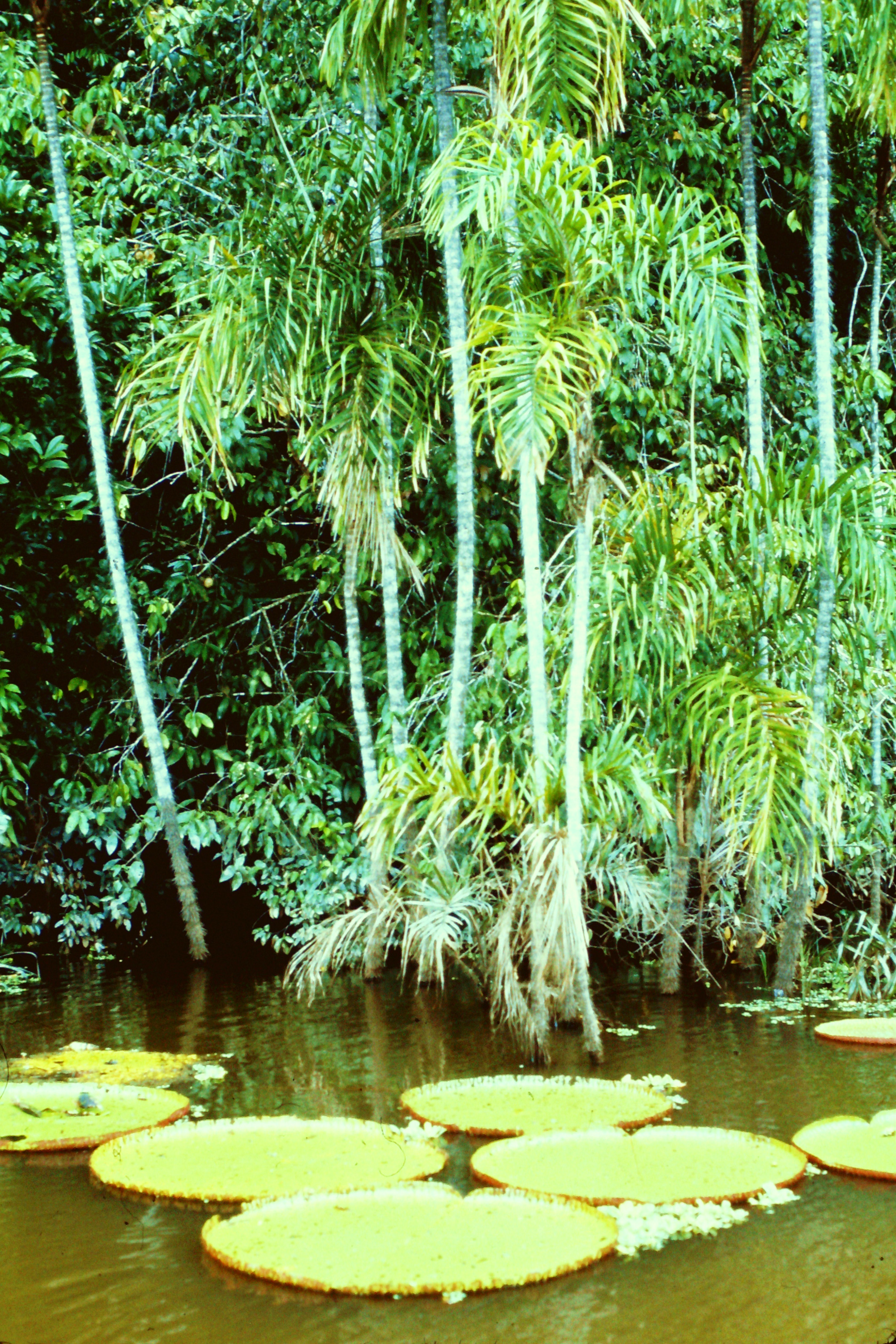 leaves of the Vicoria Regia on tributary of the Amazon, appr. 50 mls down-river of Iquitos, Peru